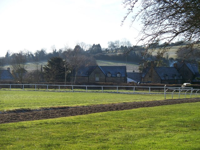 Ford village The footpath from Cutsdean has met the footpath to Cutsdean Hill which is both the Gloucestershire Way and the Diamond Way. From where the footpaths meet, the view is of houses in the village of Ford.